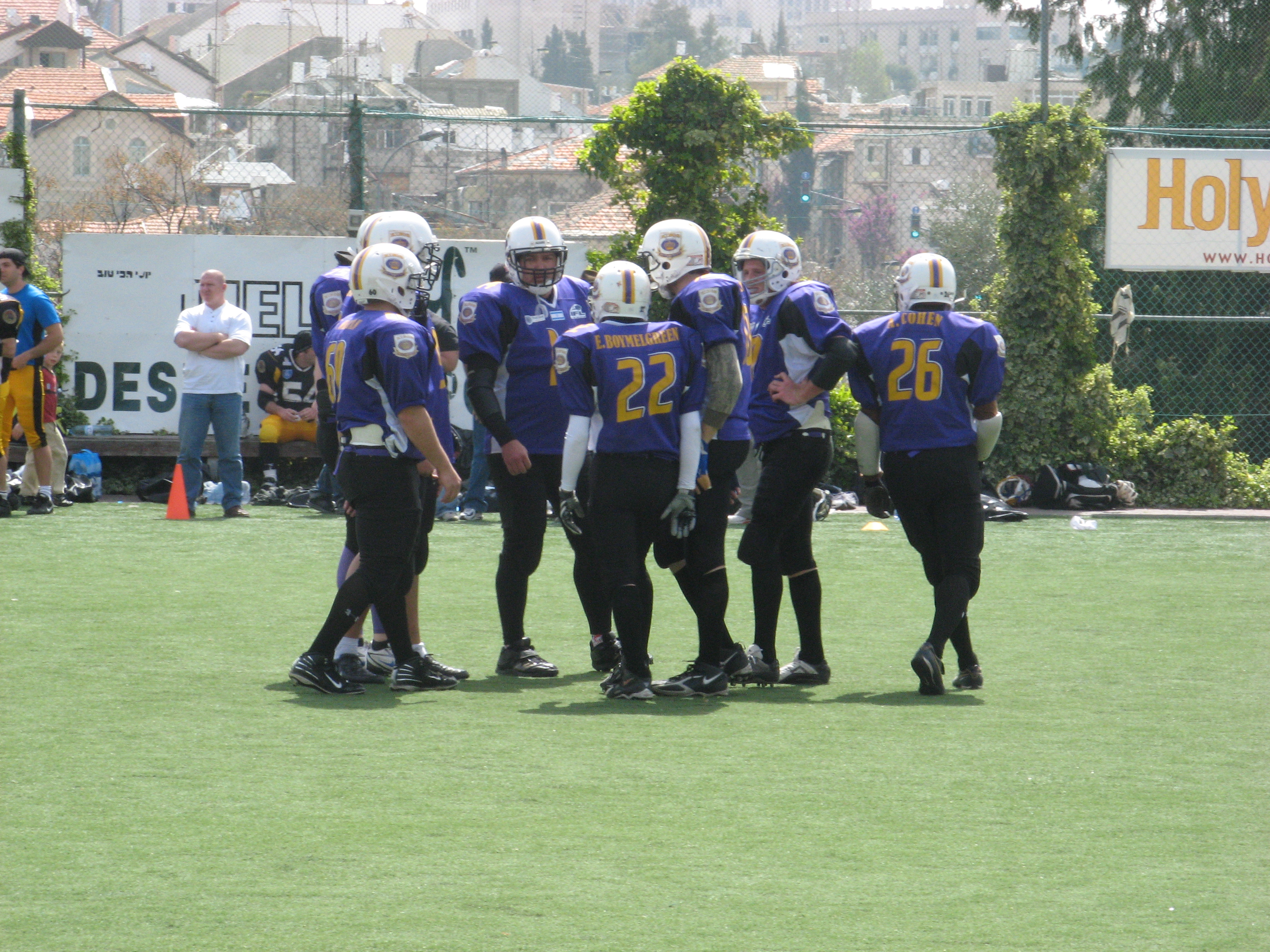 Jerusalem "Blue Sun Music" Kings on a huddle during the 3rd place of the IFL match for 2009